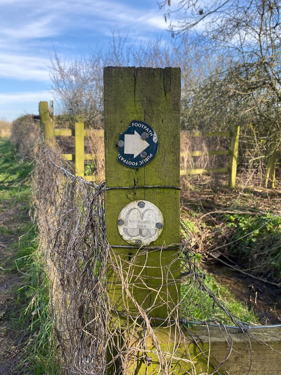 Trail marker showing the double-acorn emblem of the Midshires Way, a 230 mile footpath and bridleway in England.